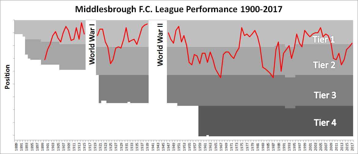 Chart showing the progress of Middlesbrough's league finishes since the 1899-1900 season